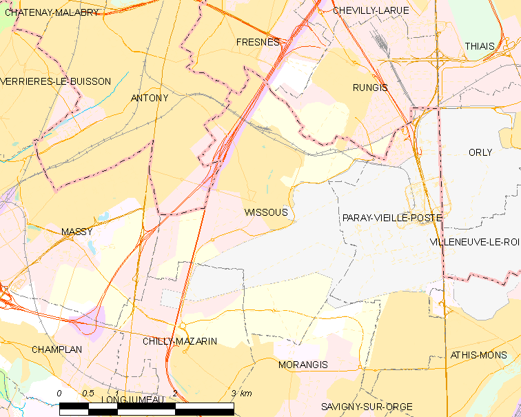 Map of French municipality Wissous